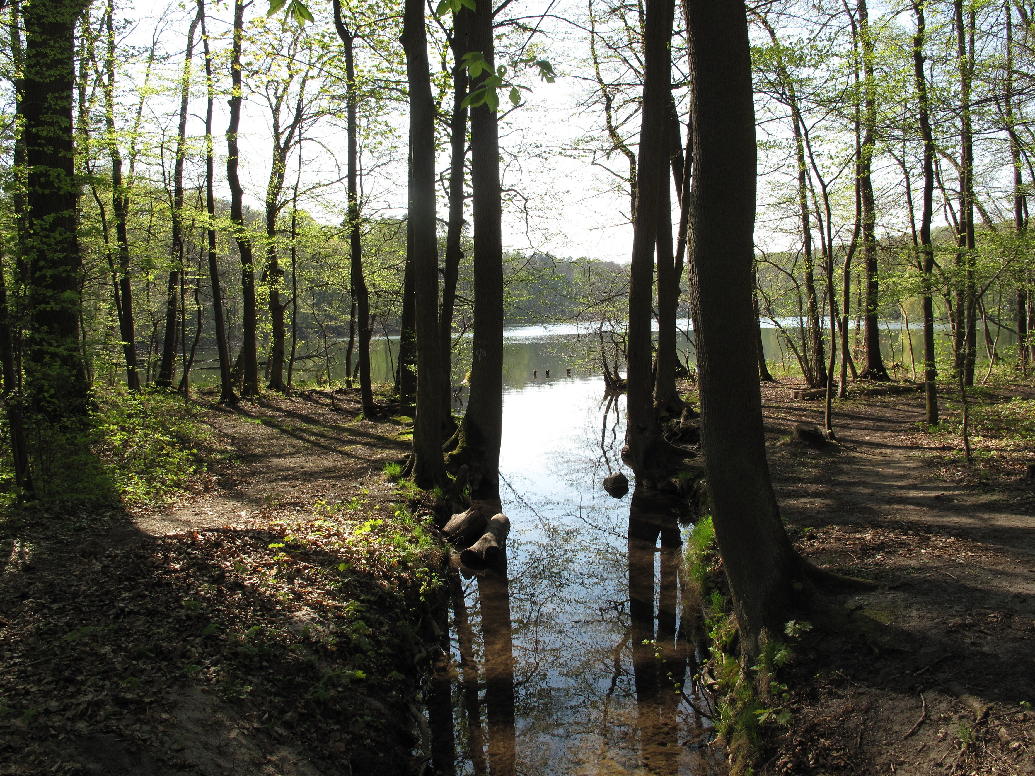 The Große Tornowsee is a lake in the hill country „Märkische Schweiz“ and in the Märkische Schweiz Nature Park. It is situated in Pritzhagen, a village of the municipality Oberbarnim in the District Märkisch-Oderland, Brandenburg, Germany. The lake covers 10 hectare.